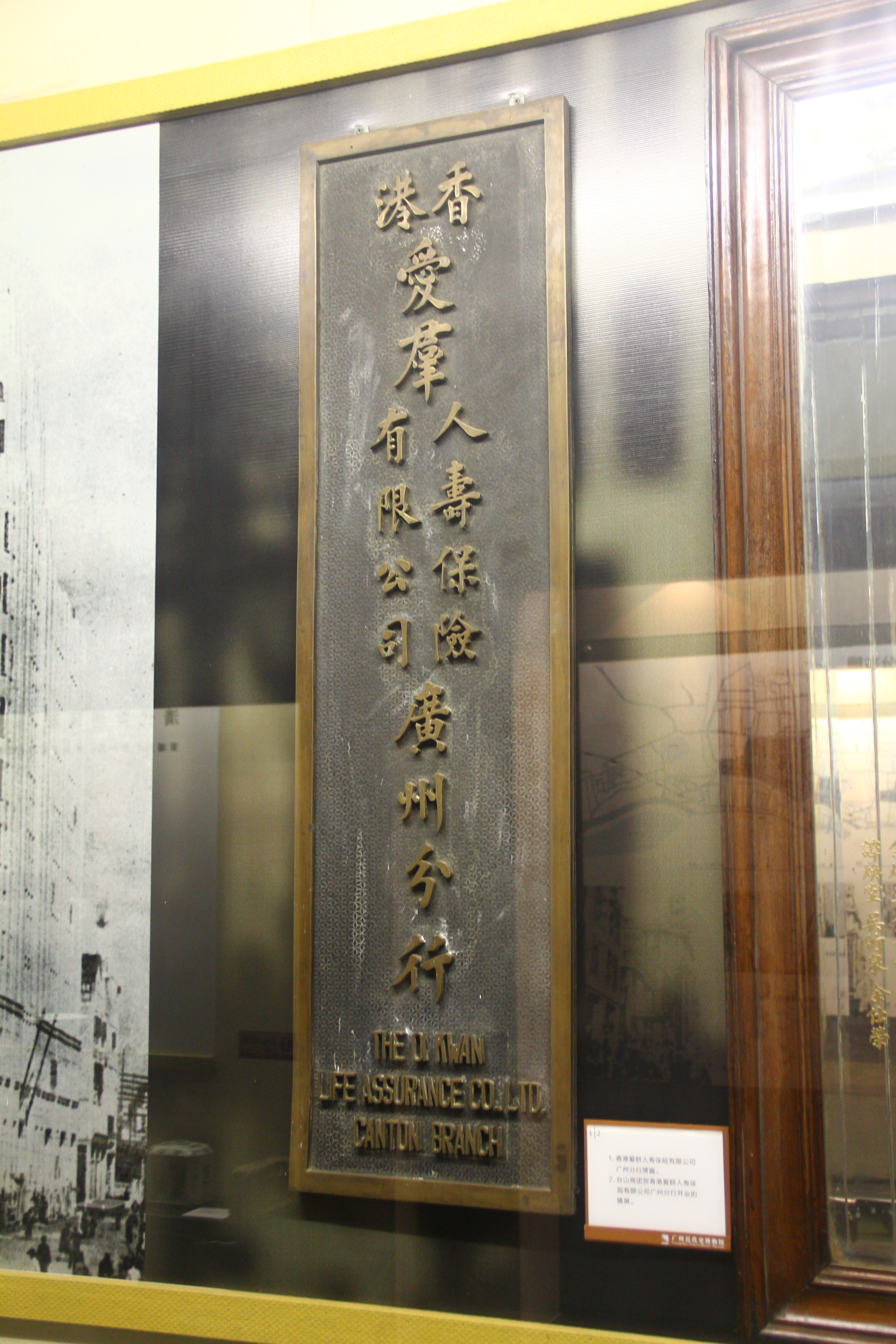 The Oi Kwan Life Assurance Co., Ltd. Canton Branch.